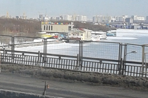 South River Terminal in Moscow, 2013